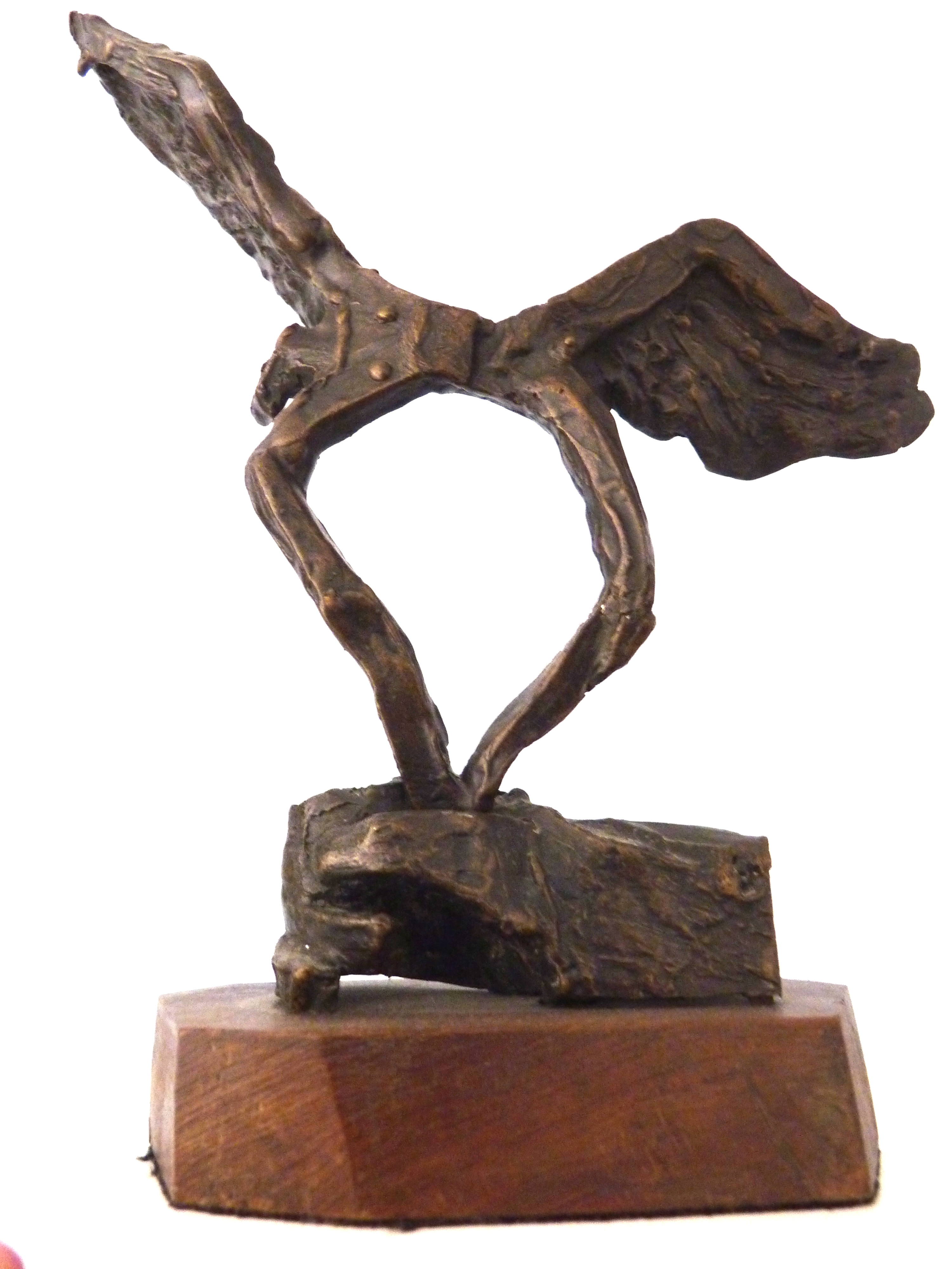 Bronze figure